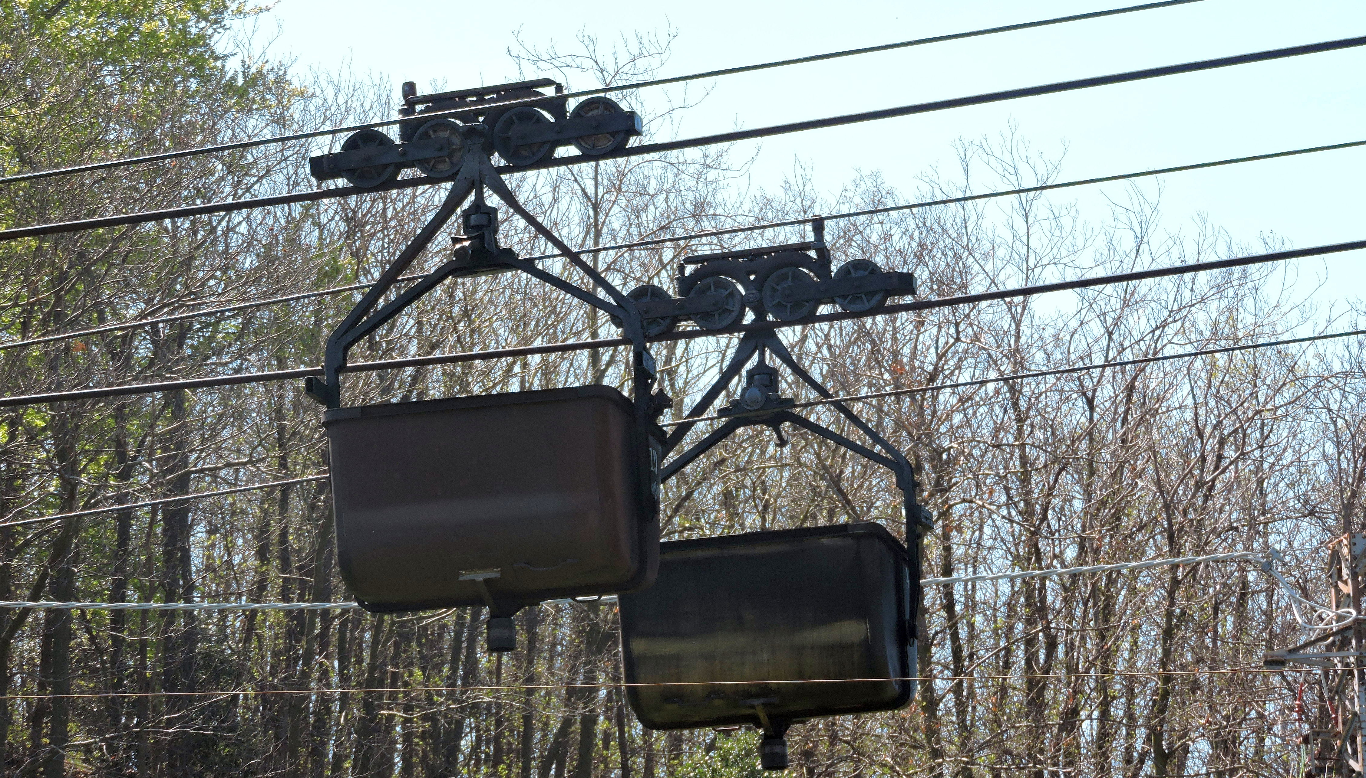 Funivie di Savona (Savona cableway): suspended buckets detail